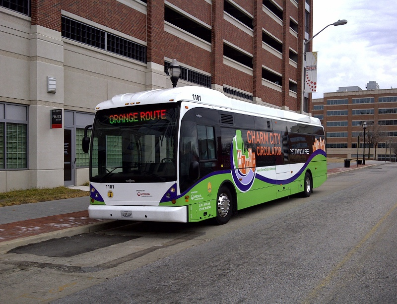 Charm City Circulator Vanhool A330 #1101 on the Orange Line.